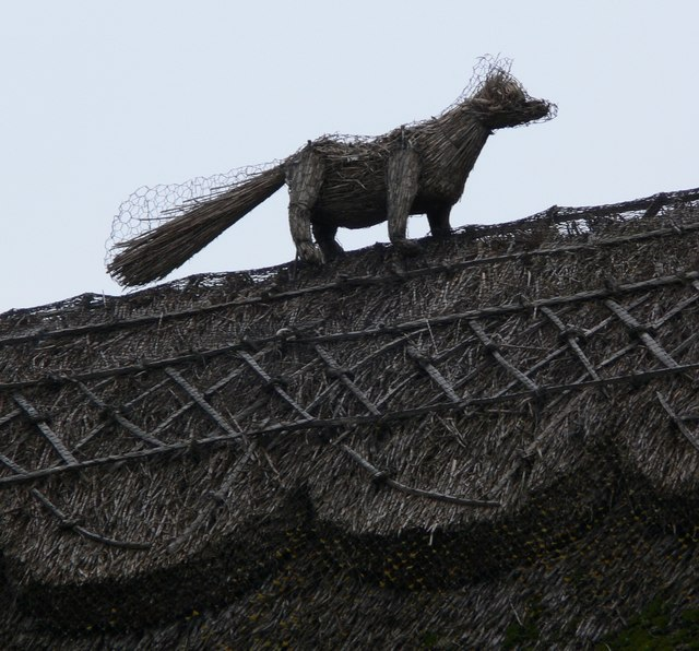 Straw fox A detail of a thatched roof in the village of Long Whatton in Leicestershire.